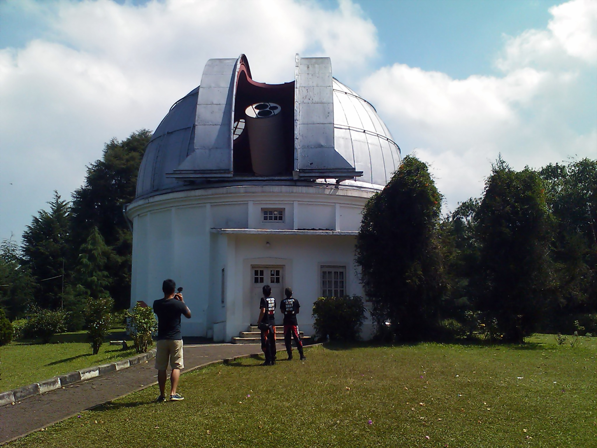 Bosscha observatory at Lembang - Bandung, Indonesia. Size compared to an average man.